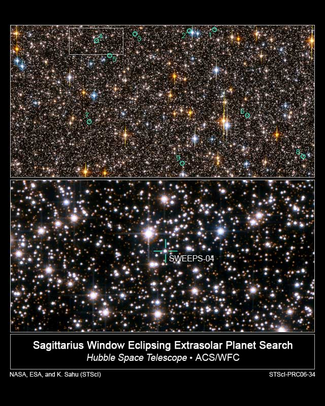 Hubble Space Telescope extrasolar planet search field in the Sagittarius constellation showing the location of confirmed planet SWEEPS-4.